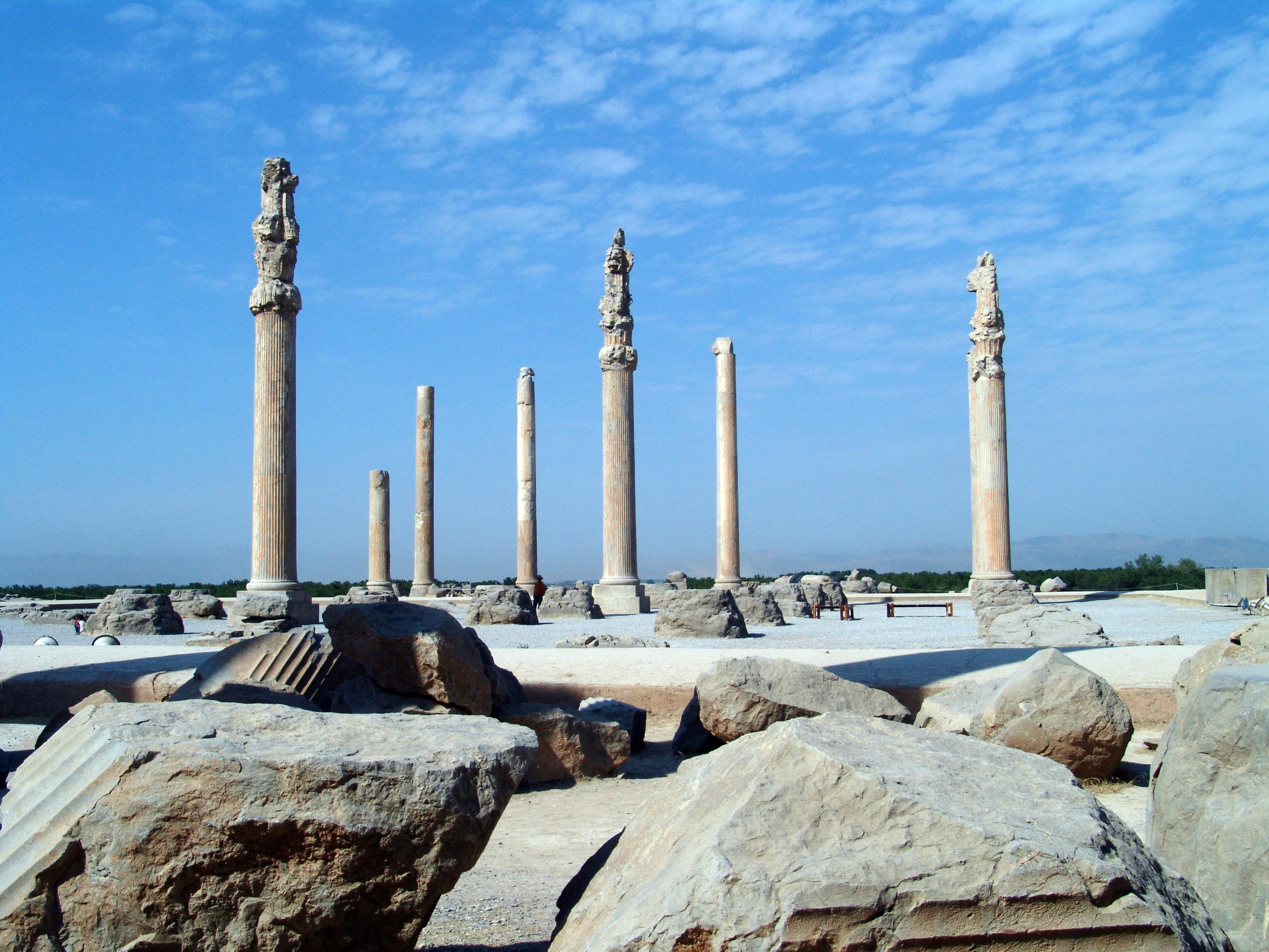 Apadana palace in persepolis, Iran